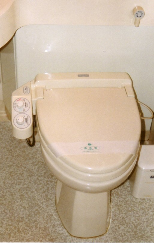 Toilet in Japan